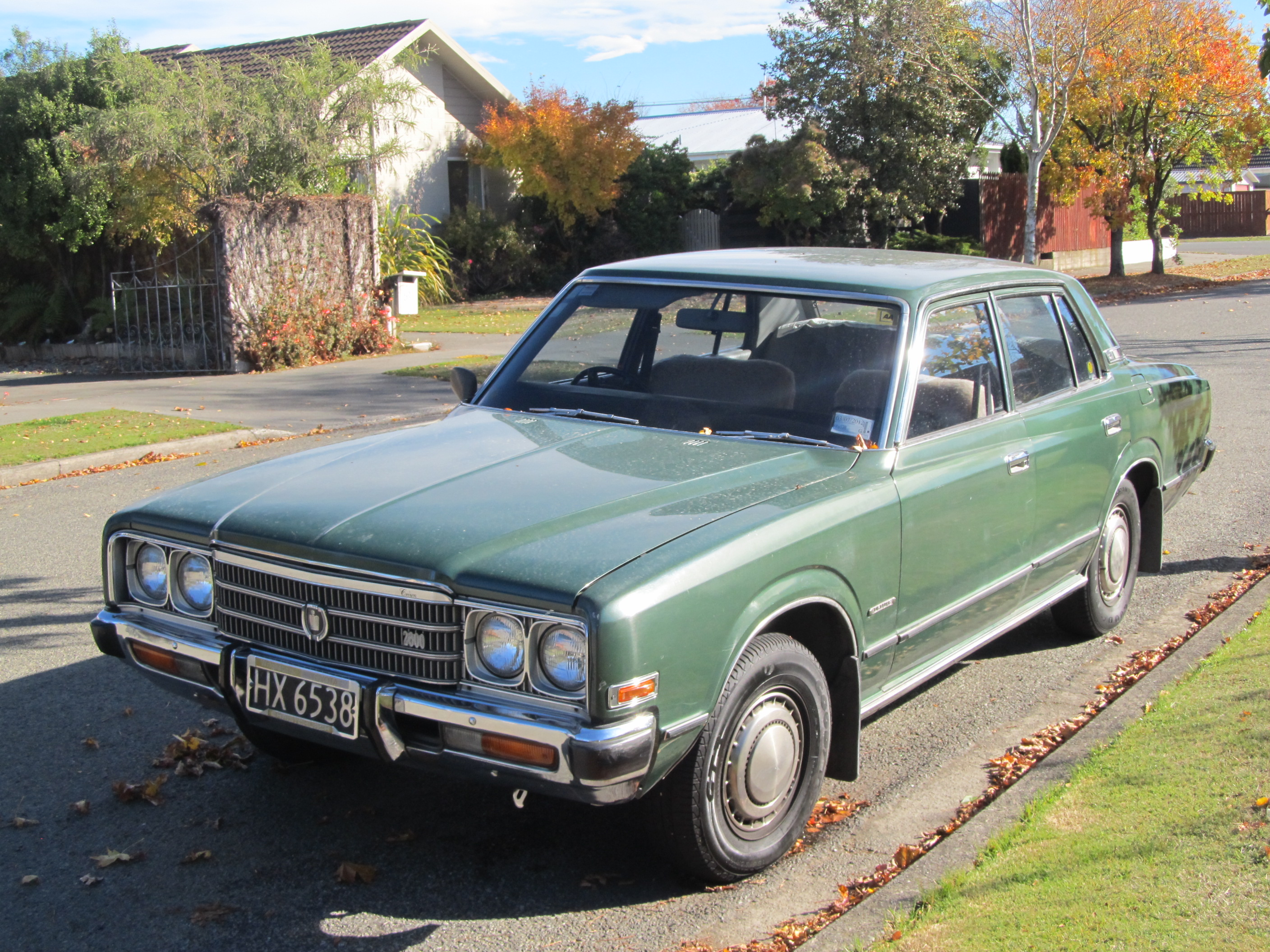 HX6538 This now lives in a street near me, and is a very tidy example of what is now a rare early Japanese car. Strangely, this car has a 1976 number plate yet is apparently a 1978 model? I guess it could have been registered in a rural town where new cars were not common and so few new number plates were issued.